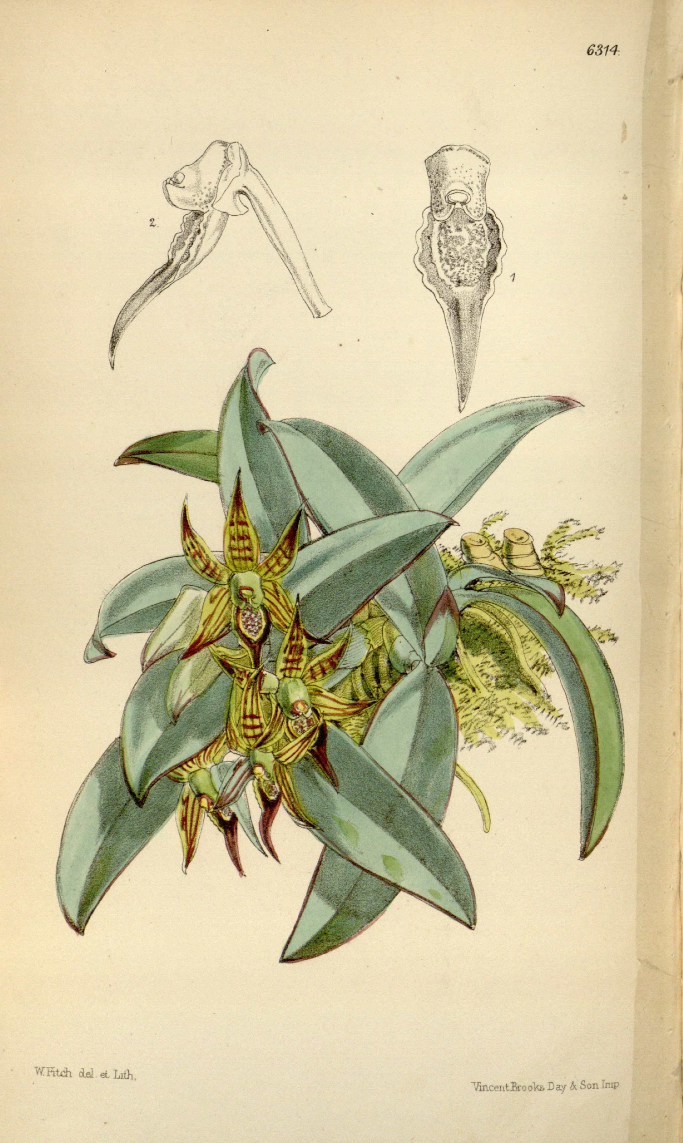 Illustration of Epidendrum sophronitis